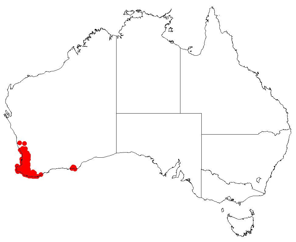 Macrozamia riedlei occurrence data downloaded from Australasian Virtual Herbarium using